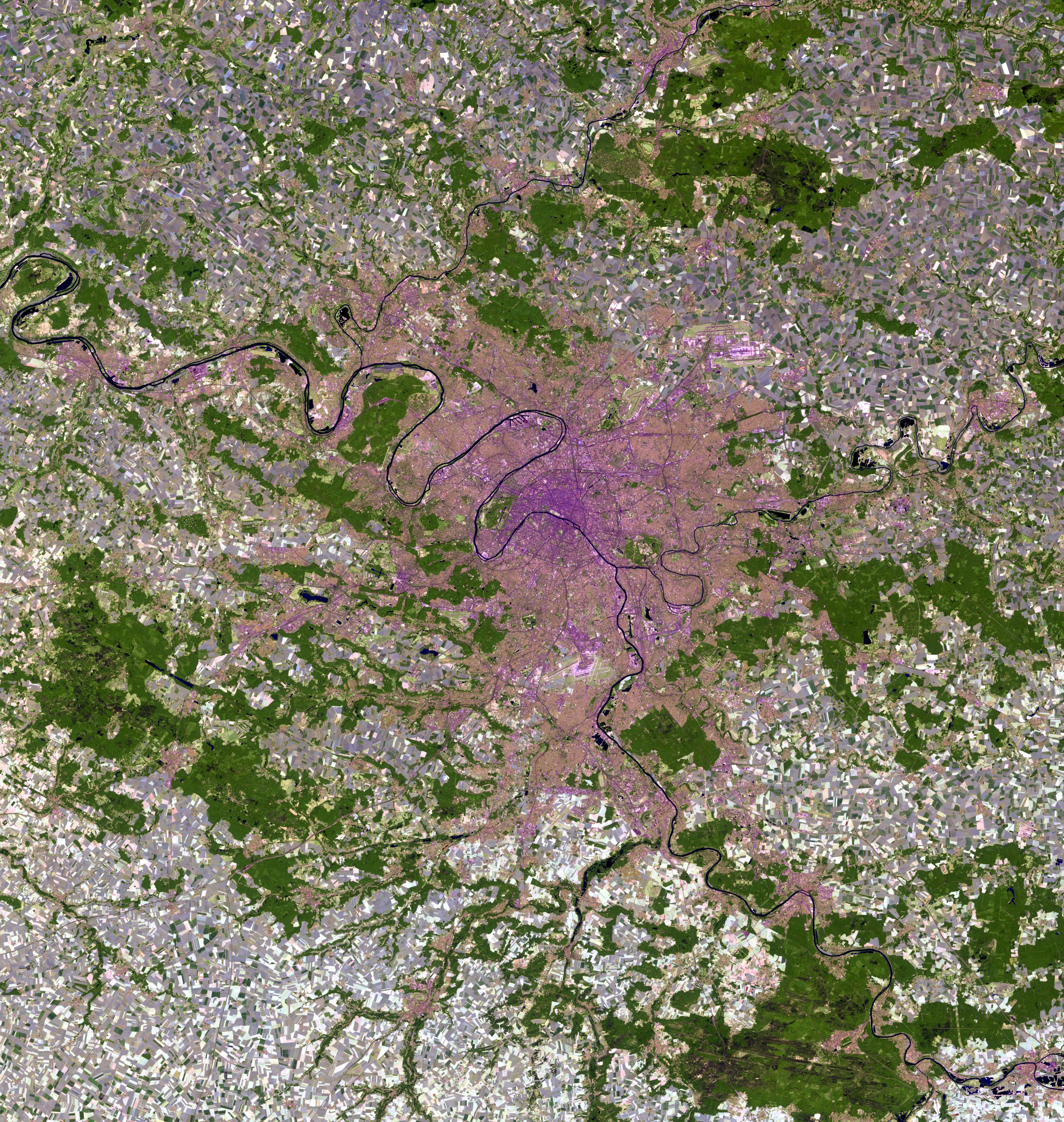 Paris and vicinities, LandSat-5 satellite image, false color bands 7, 5, 3, spatial resolution 30 m, acquisition date 2006-07-16